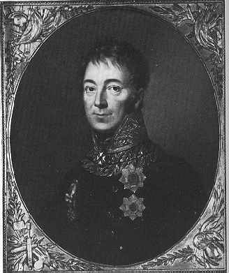 Karl Philipp Fürst von Wrede (1767 - 1838), bavarian Generalfeldmarschall, emissary of Bavaria during the Congress of Vienna.